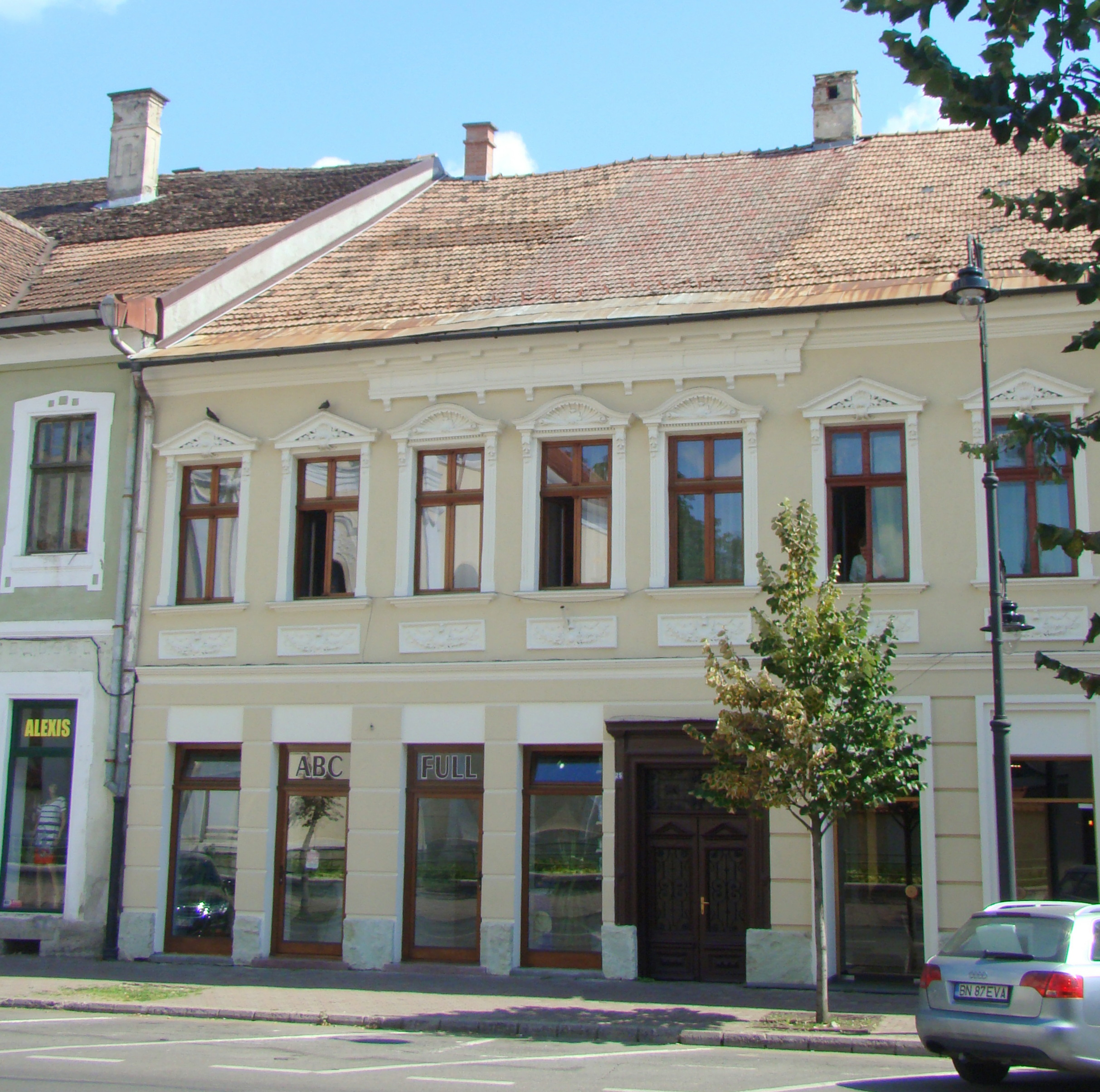 House, historic monument, in Bistrița, Gheorghe Șincai street 25